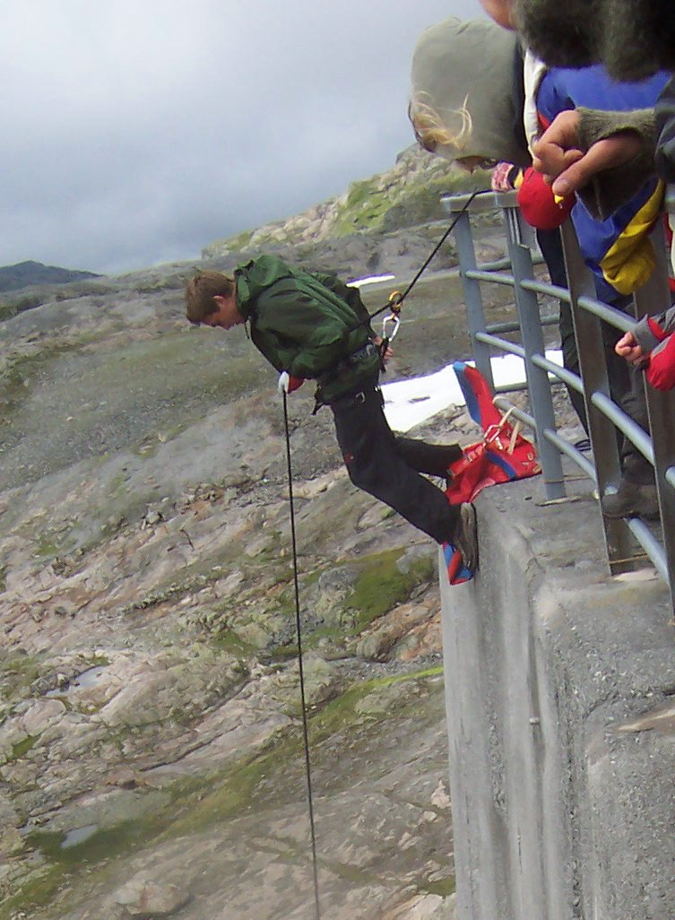 Australian rappel demonstrated by instructor at a 40 meter tall section of a 90 meter tall dam in Norway.